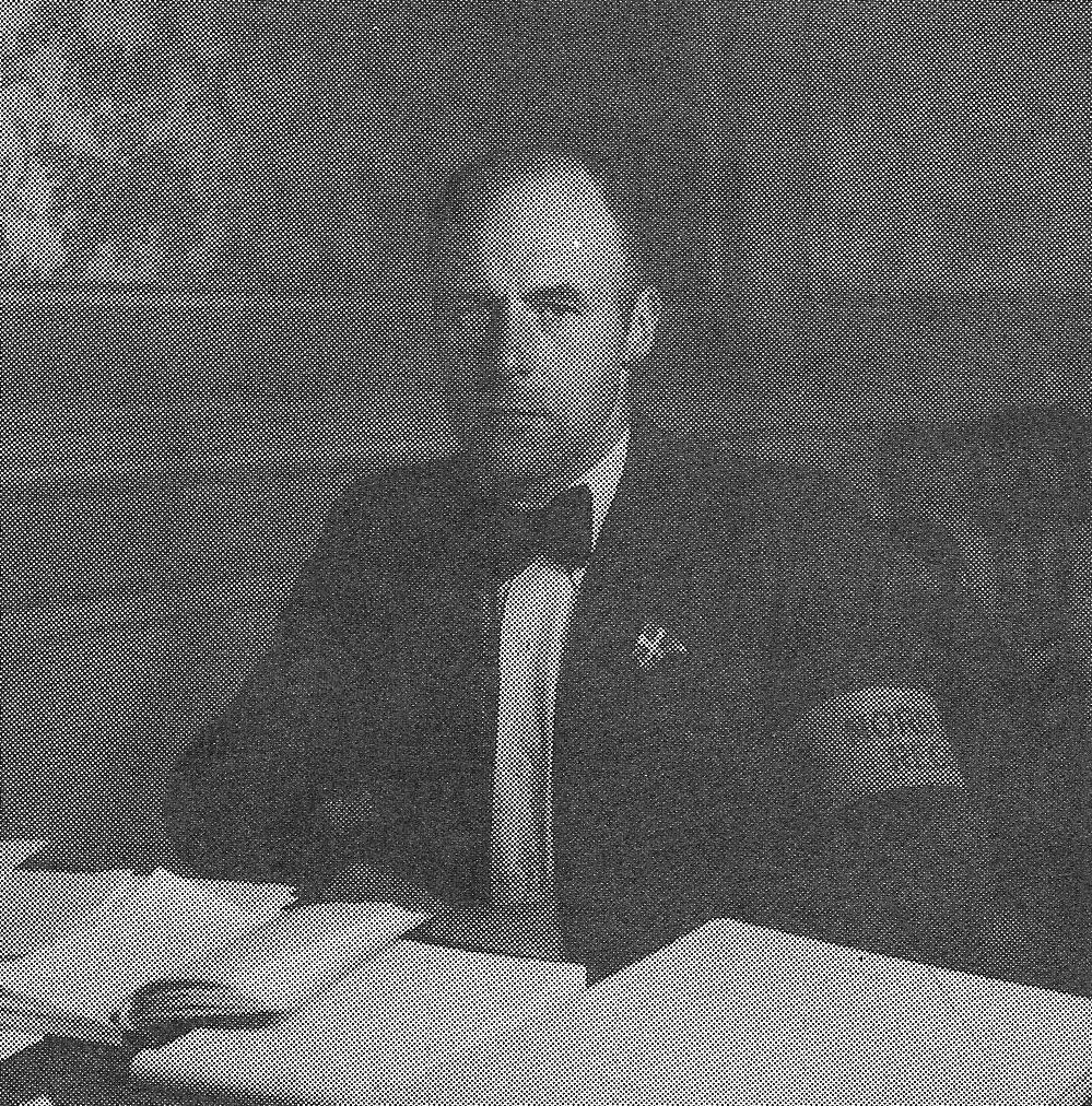 Carl-Gustav Grüner Schøller (1903-1981), Danish colonel, resistance leader, and landowner